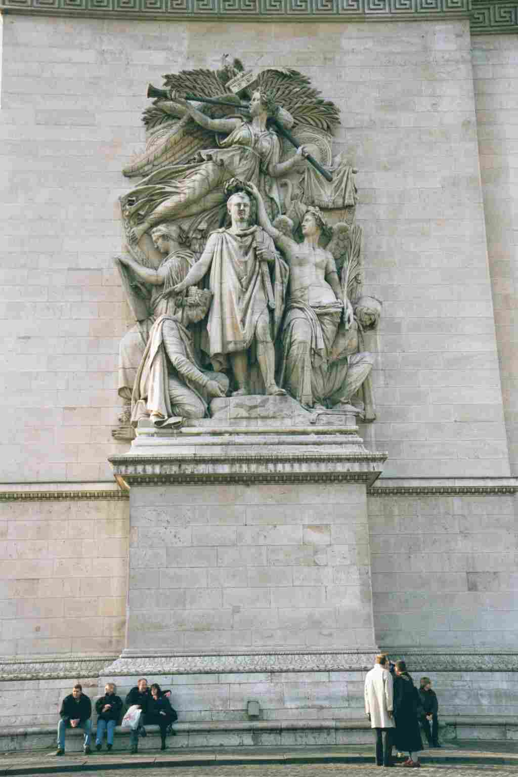 Arc de Triomphe, side view 2 Image taken by Kevin J. Rice and donated to the public domain and Wikipedia. Kevin J. Rice is at